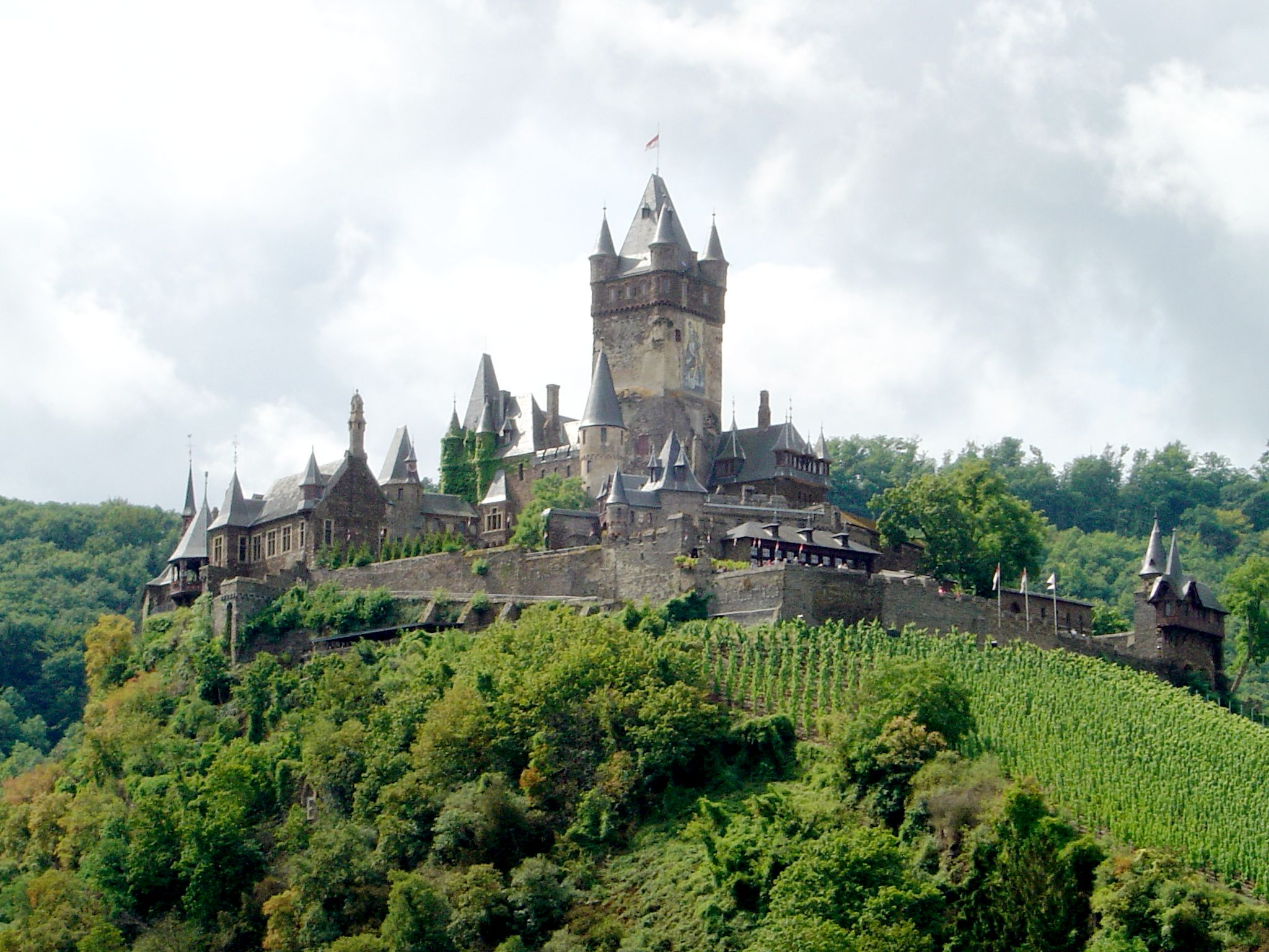 Castle of Cochem (Germany) I took this picture in august 2006